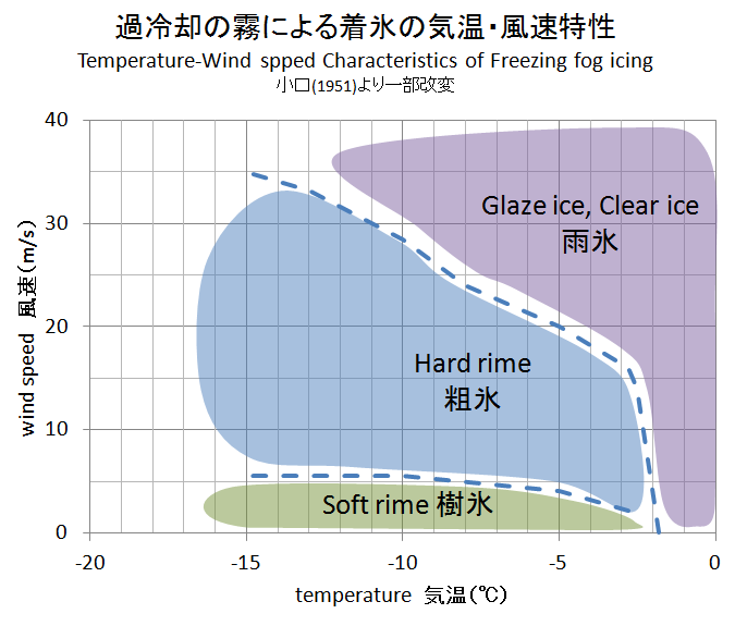 Temperature-Wind spped Characteristics of Freezing fog icing from Oguchi(1951).